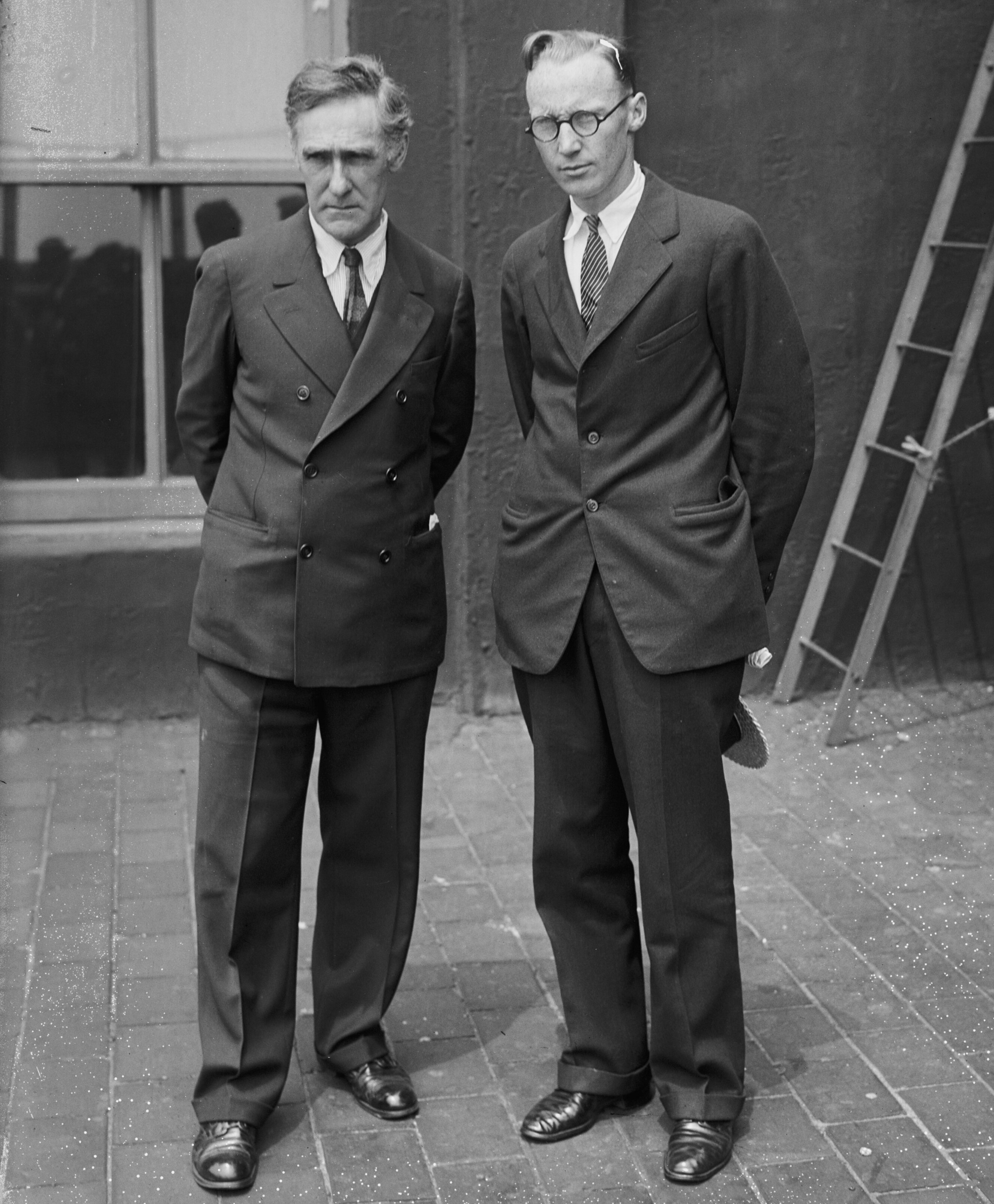 Dr. John R. Neal, Jr. (1876–1959) and John T. Scopes at the Scopes Trial in Dayton, Tennessee, in 1925.